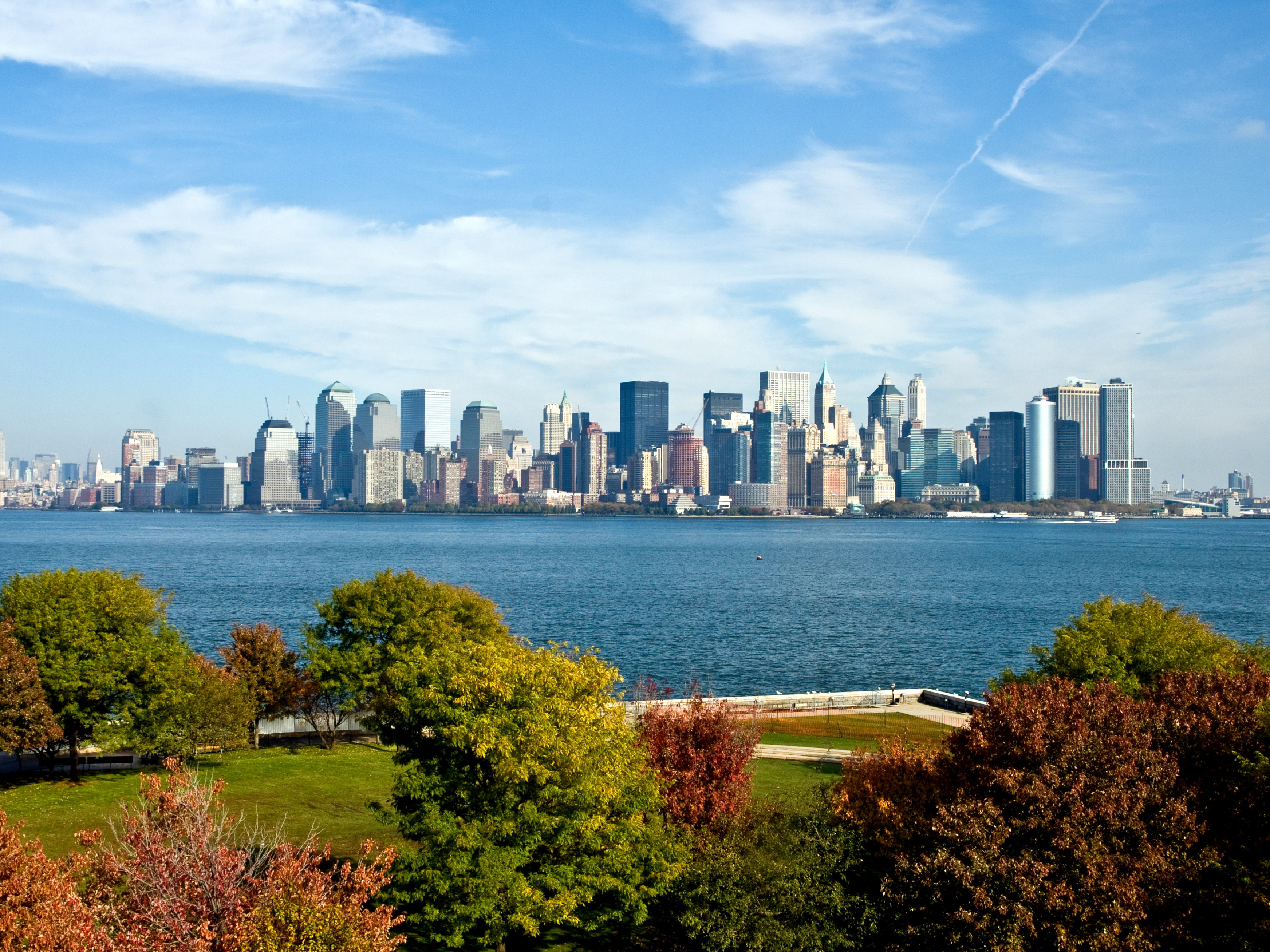 Skyline of New York City from Ellis Island